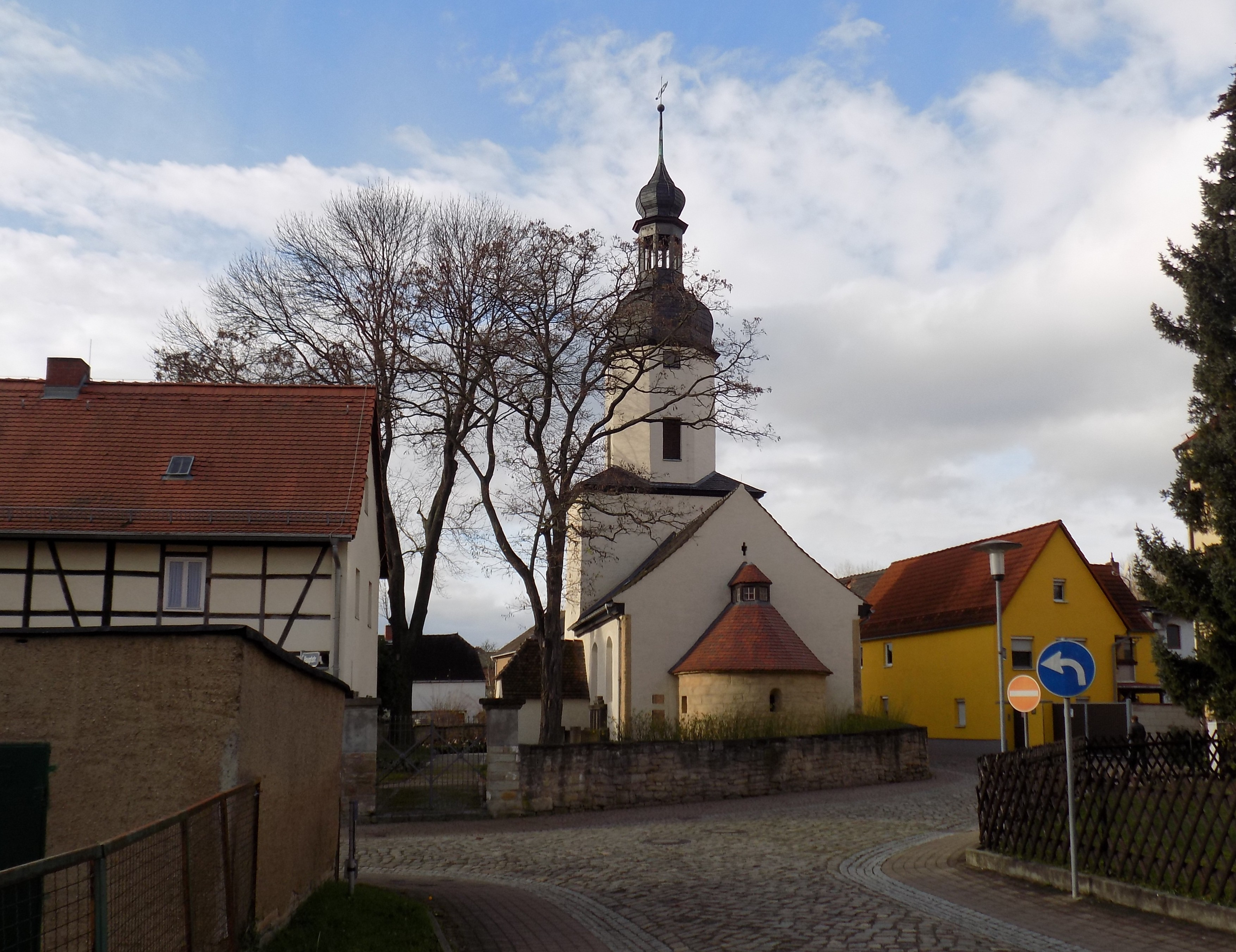 Aue-Aylsdorf church (Zeitz, district: Burgenlandkreis, Saxony-Anhalt)